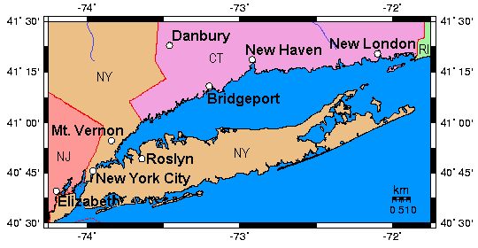 Mercator projection map of Long Island.